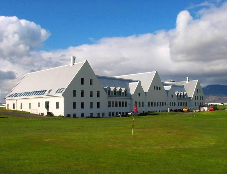 Korpúlfstaðir, historical manor in Reykjavik (Grafarvogur district), Iceland